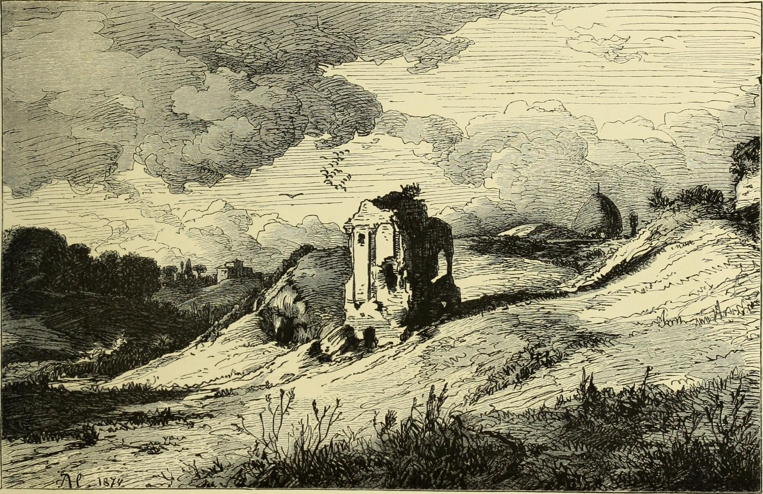 Title: Italy from the Alps to Mount Etna Year: 1877 (1870s) Authors: Stieler, Karl, 1842-1885 Cavagna Sangiuliani di Gualdana, Antonio, conte, 1843-1913, former owner. IU-R Paulus, Eduard, 1837-1907 Kaden, Woldemar, 1838-1907 Trollope, Frances Eleanor, d. 1913 Trollope, Thomas Adolphus, 1810-1892 Subjects: Publisher: London : Chapman and Hall Text Appearing Before Image: Of THE UNIVERSITY 0 ■ THE ETERNAL CITY IN A MODERN TOGA. 233 ruinous constructions :—the gigantic Baths of Diocletian, in which, and out of which,numerous modern churches, convents, houses and halls, have been built. And theselatter again,—as though infected by the contact of ruin,—are already themselves almostruinous ; as may be seen by their dusky, dusty hue, their cracks and crevices, their blindwindows unopened for many a long year, and their rotting doors. Here, as at the PortaViminalis, Rome consisted solely and wholely of ruins but a few years ago :—ruins Text Appearing After Image: SEGGIOLA DEL DIAVOLO IN THE ROMAN CAMPAGNA. antique, mediaeval, and modern ! Nothing but ruins. And the population born andbrought up amid these ruins let things perish as they would. In papal Rome no handwas stirred to repair the universal decay with hammer or mortar. But in every corner of the city, in every courtyard, on every piazza, the fountainsplashed with so sweet a lullaby, the three hundred and sixty-five churches offered sowelcome a refuge where weary souls might sleep and dream, that in this atmosphere ofsecular slumber men were scarcely aware of the decay around them, and wandered likesomnambulists amidst the ruins, leading an existence scarcely more animated than that ofthe ivy which covered them. Then came a fresh breath of autumn, and one morning the cannons thundered at thegates of the city. Their sound overpowered the plash of the fountains, the bells of thechurches, and the voices of the chanting monks. The smoke of the great guns enteredin at the open doors of the